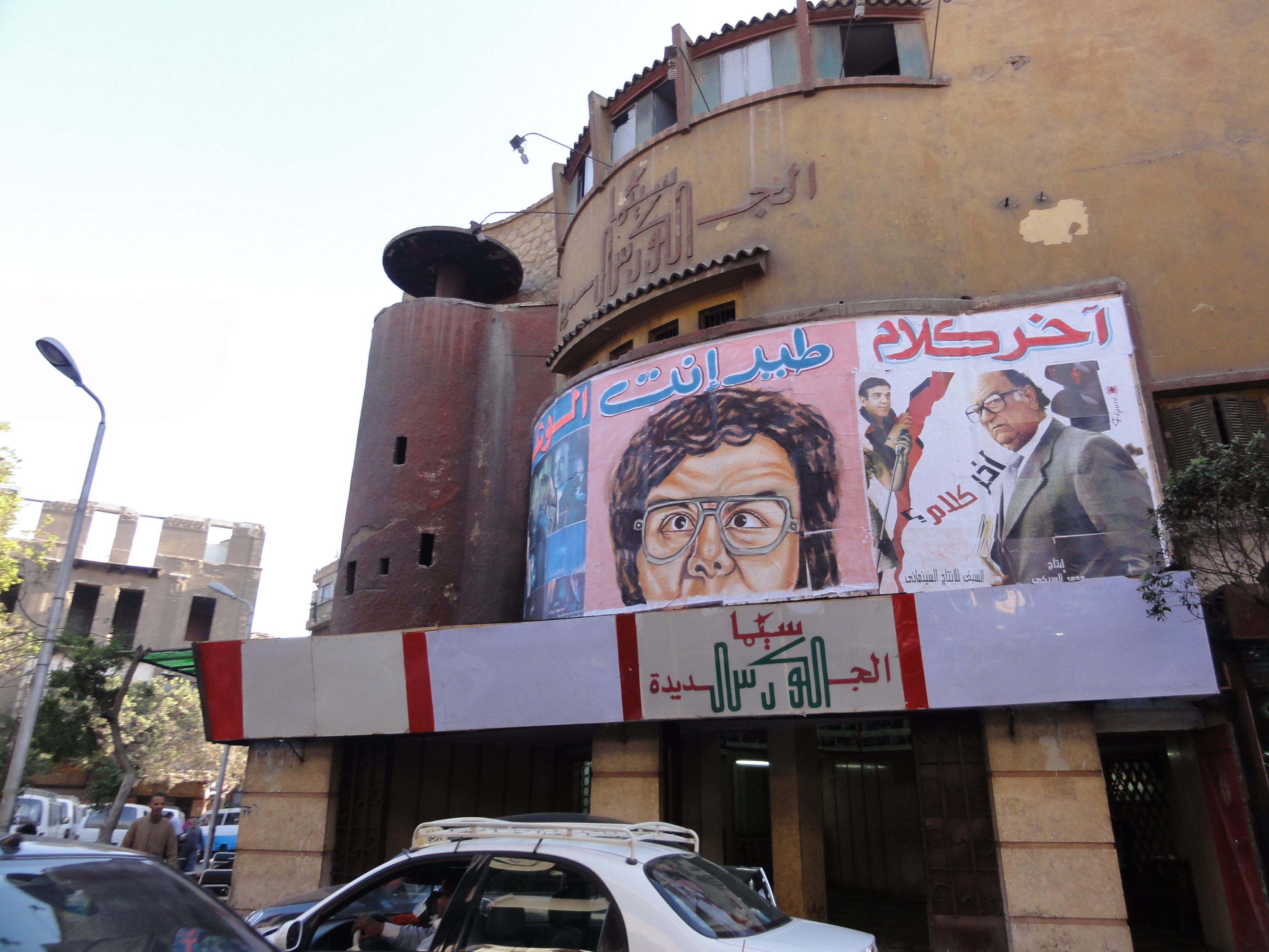 Kursaal Cinema, Cairo